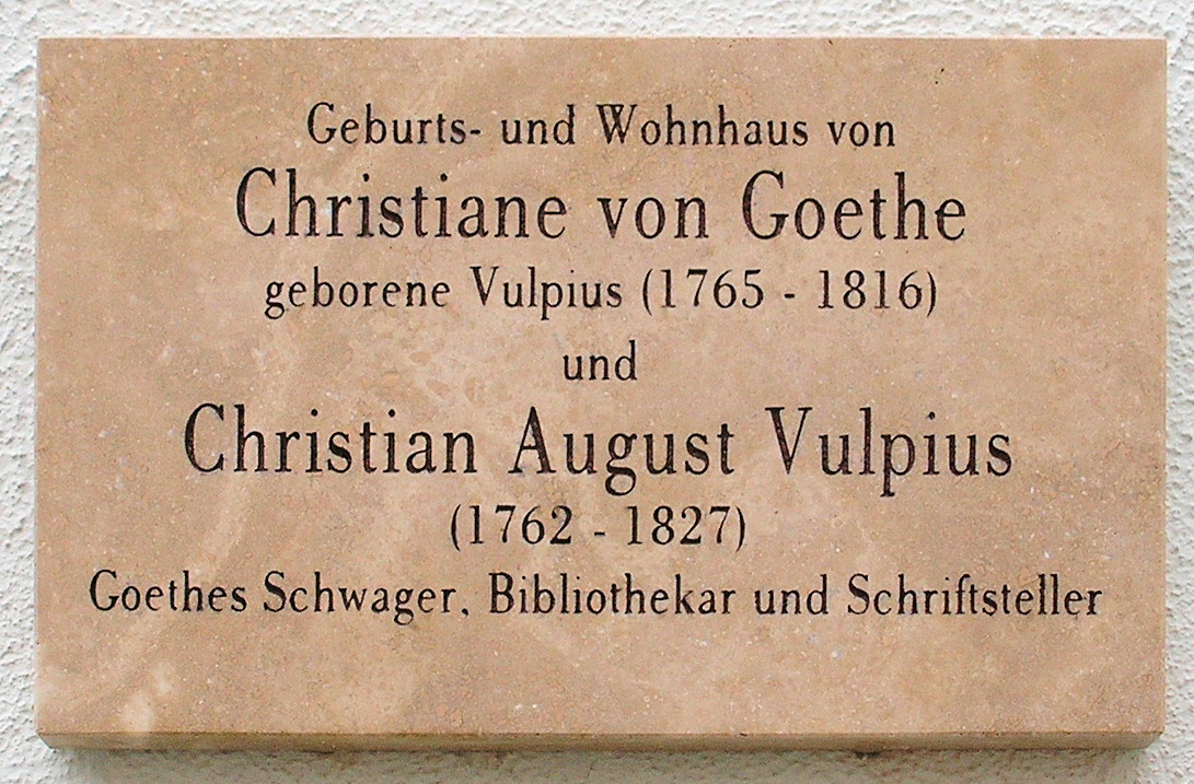 Memorial plaque, Christiane von Goethe, Luthergasse 5, Weimar, Germany